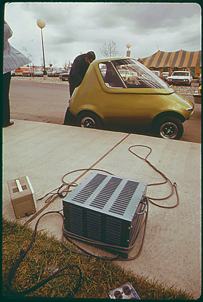 General Motors Urban Electric Car gets a battery charge from an outlet in the parking lot at the first symposium on low pollution power systems development held at the Marriott Motor Inn, Ann Arbor, Michigan.